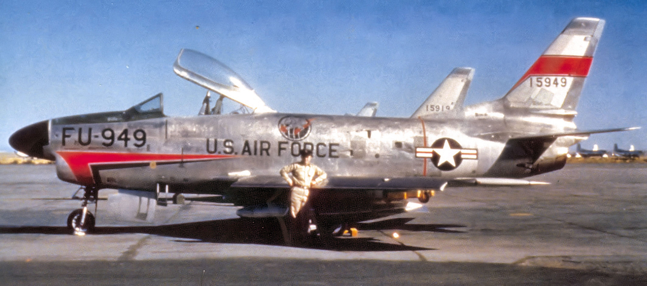 323d Fighter-Interceptor Squadron North American F-86D-30-NA Sabre 51-5949 25th Air Division, Larson AFB, Washington, April 1955 Aircraft sold to Japan Air Self-Defnese Force (JASDF 84-8156)